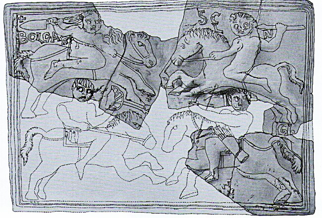 Теракотената икона с надпис Болгар